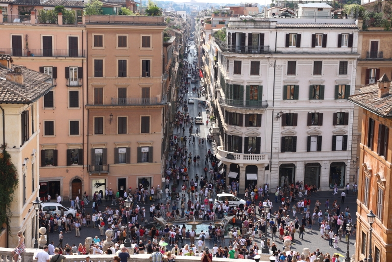 View from the Spanish Steps, By Uri Bareket